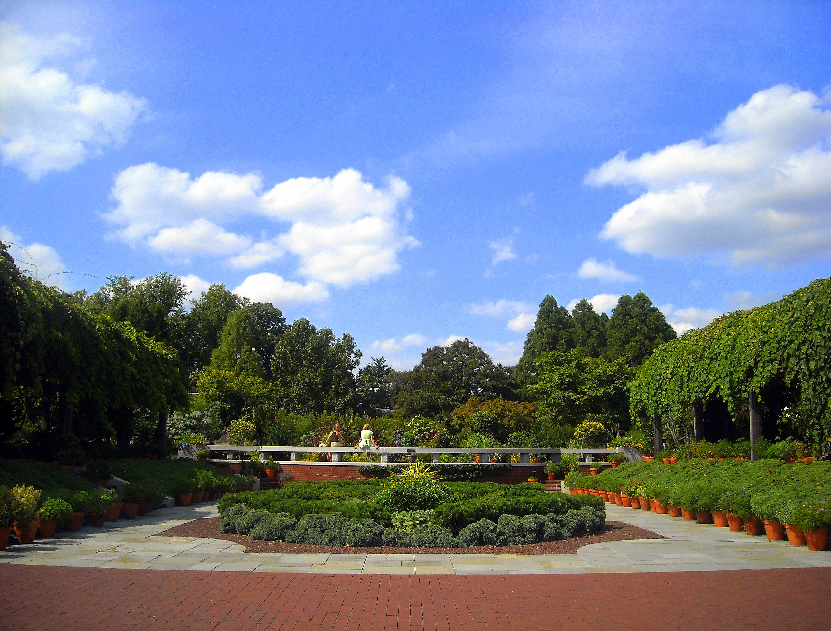 National Herb Garden at the United States National Arboretum in Washington The Arboretum is listed on the National Register of Historic Places.